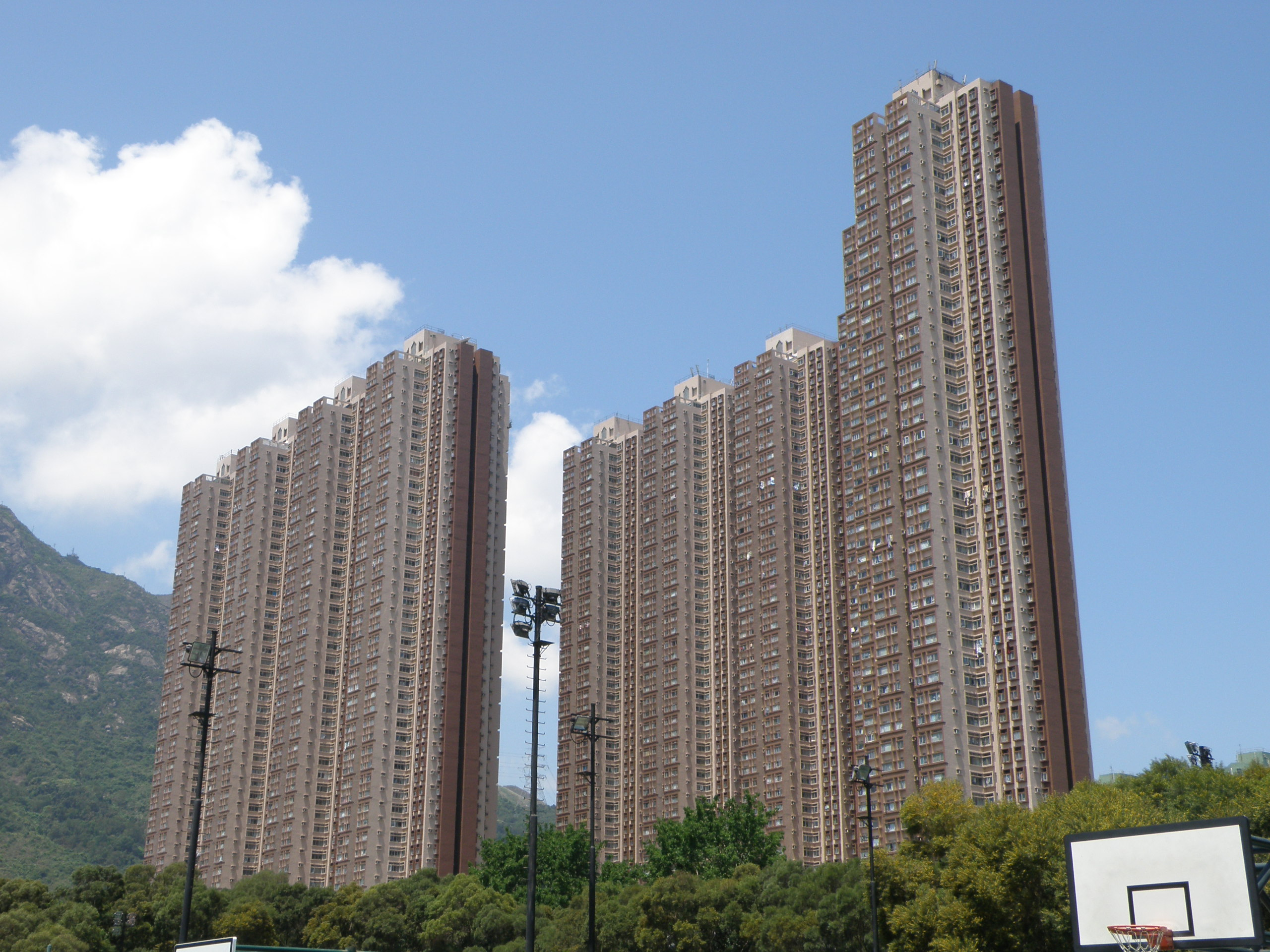 Sun Tuen Mun Centre in Tuen Mun, Hong Kong.